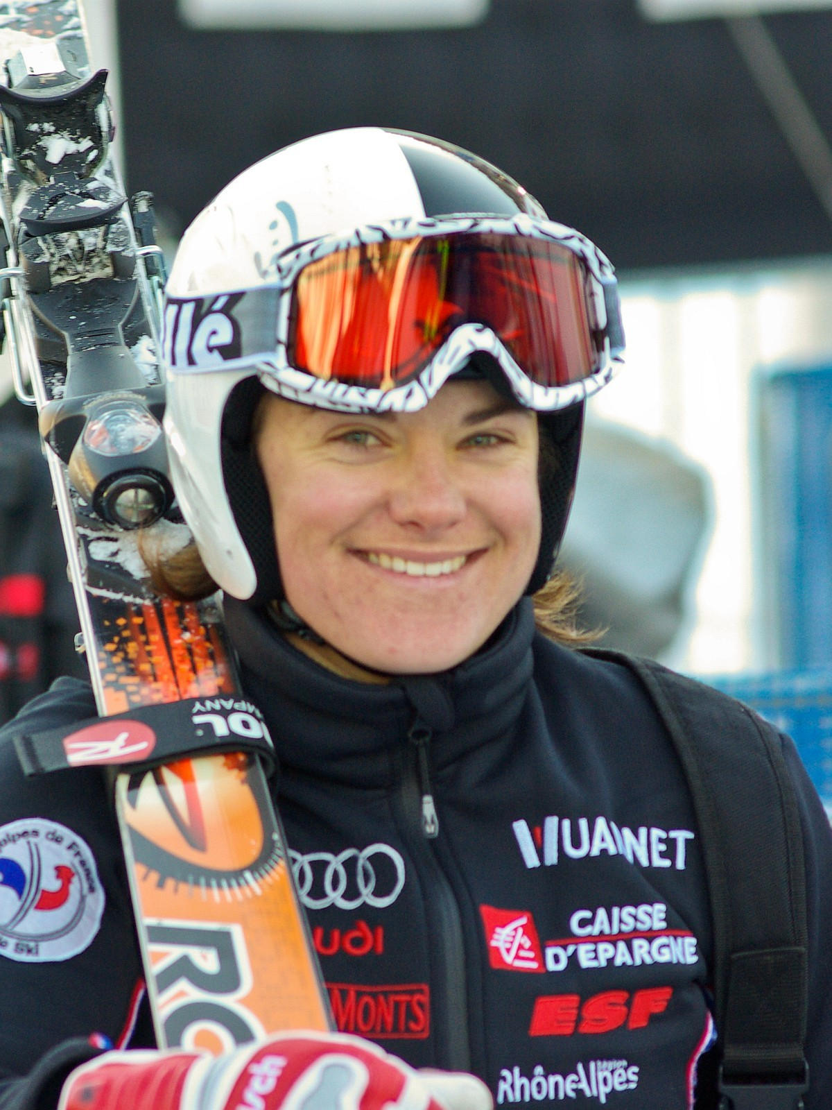 French alpine skier Marion Rolland after the second downhill training in Altenmarkt-Zauchensee (Austria) on 16 January 2009.